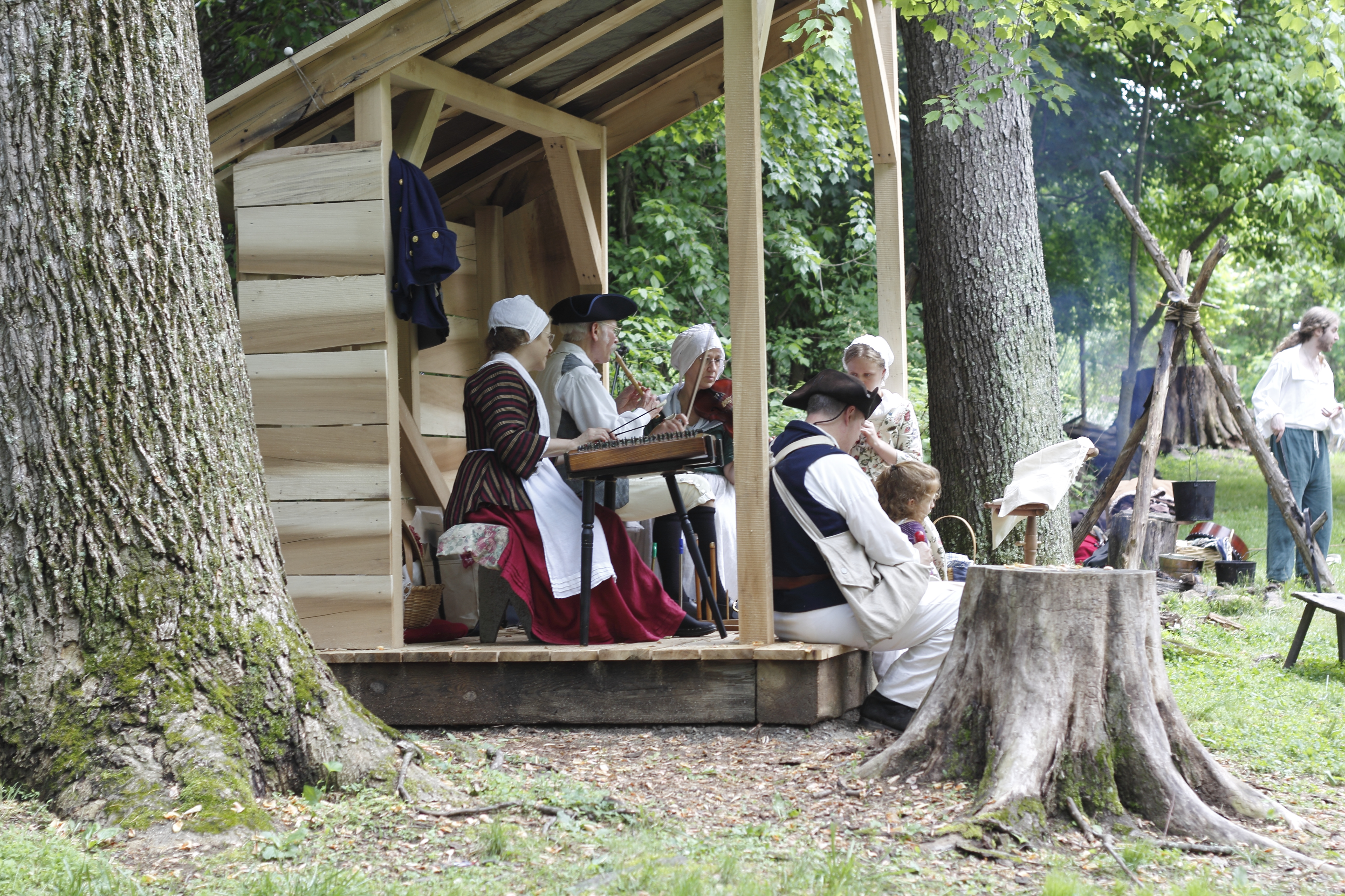 Musical entertainment at the Market Fair at the Claude Moore Colonial Farm